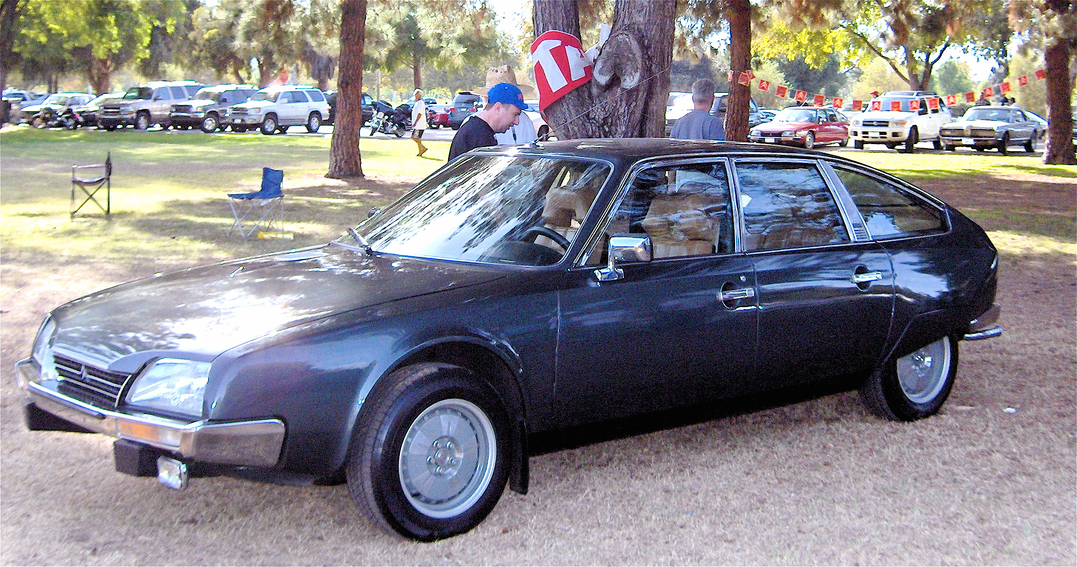 �Own photo - public location